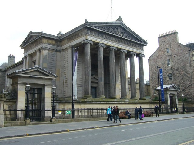 Built in 1832 to a design by William Playfair, this temple to medicine is one of the magnificent neo-classical buildings which earned Edinburgh the epithet, "Athens of the North". It houses an anatomy museum, among whose grislier exhibits is the skeleton of William Burke, displayed publicly as an explicit consequence of the sentence passed on him for his part in the so-called "West Port murders" of the early 1820s. His accomplice, William Hare, was persuaded to "turn King's evidence" in order to enable a successful prosecution. In return, Hare was freed while Burke went to the gallows. The two men, often described erroneously as body-snatchers, are known to have despatched at least sixteen victims to the afterlife in order to sell their dead bodies to the doctors for use as dissection material in lectures at the Edinburgh Medical School. The trade in corpses developed at a time when the growth of medical science meant that demand greatly outstripped supply. The murders and the strength of public indignation they aroused against the medical profession gave added impetus to the passing of the 1832 Anatomy Act which increased the legal supply of corpses to the medical schools.